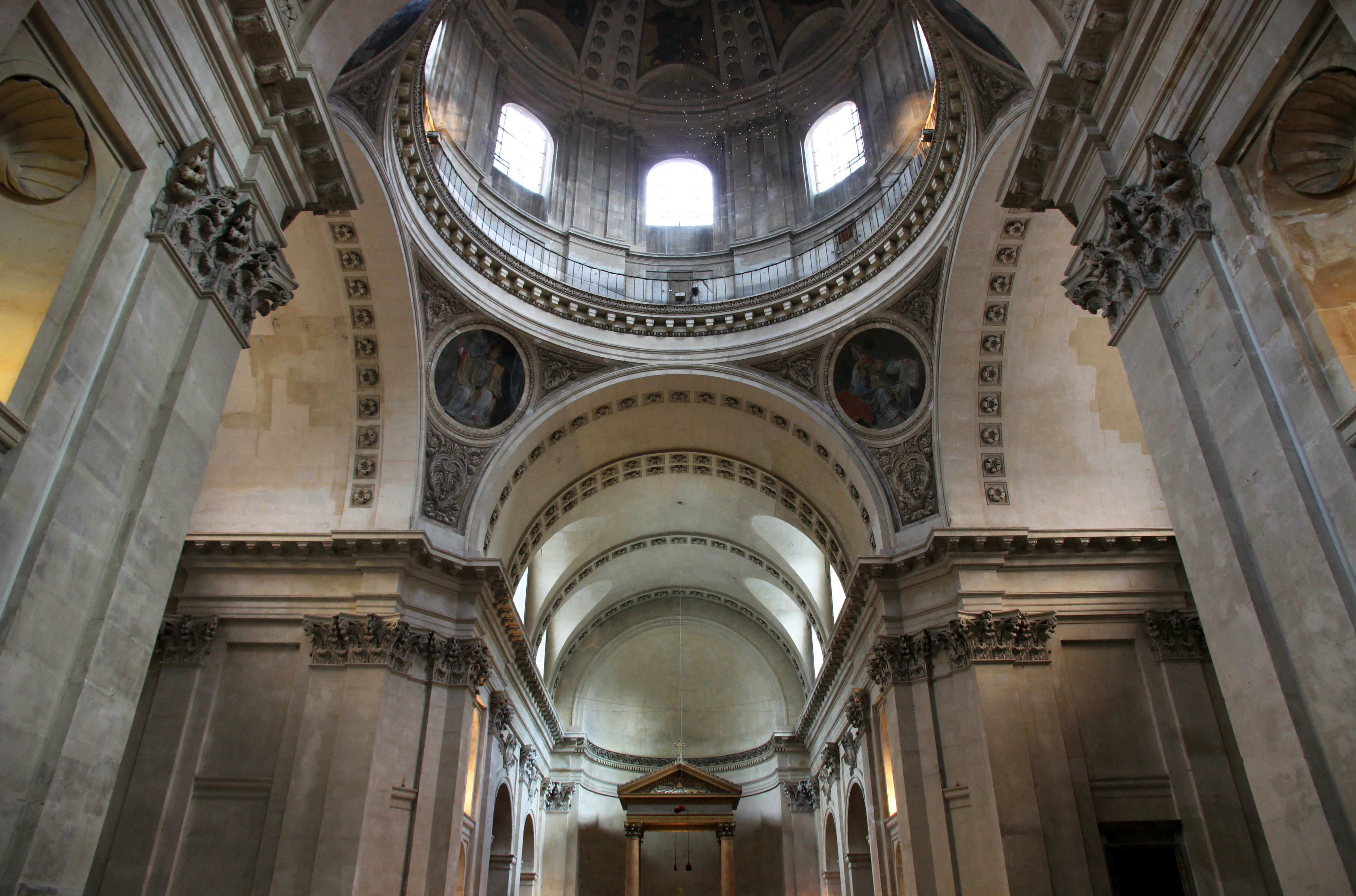 Interior of the Chapelle de la Sorbonne, Paris.